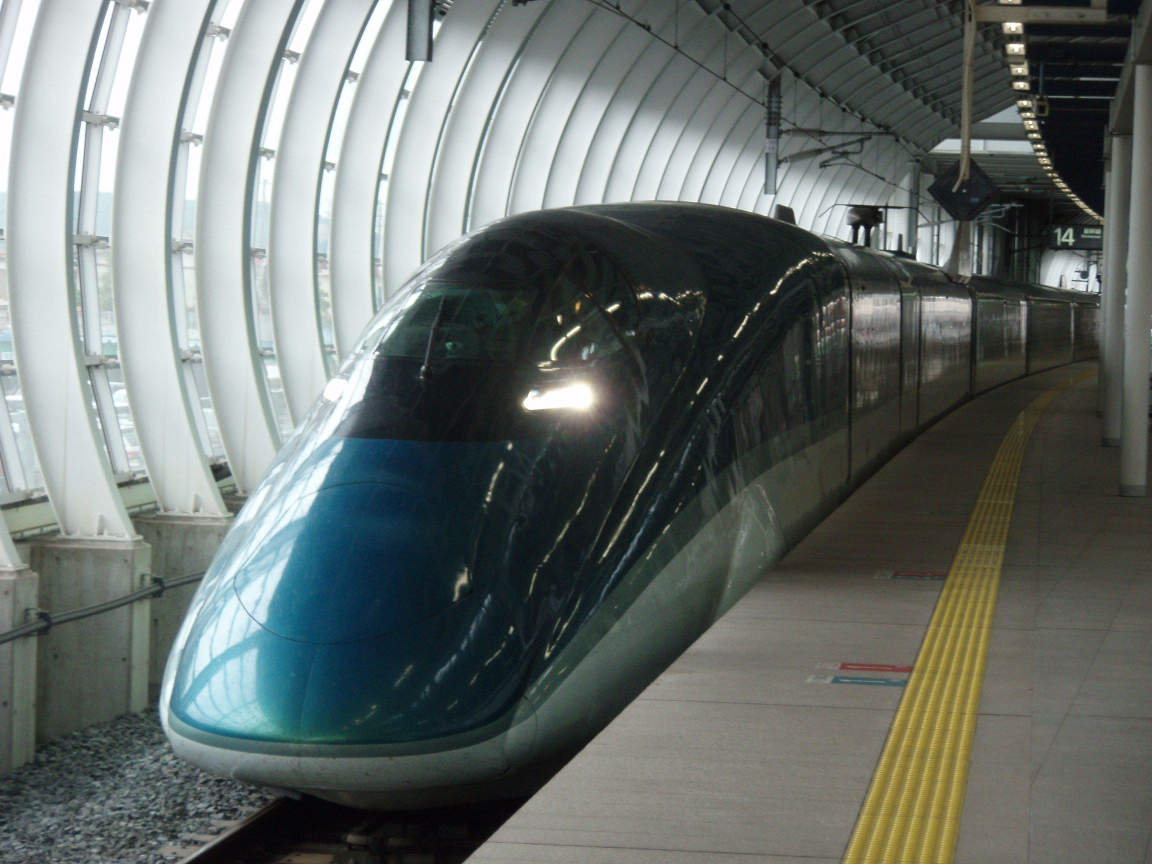 Fastech 360